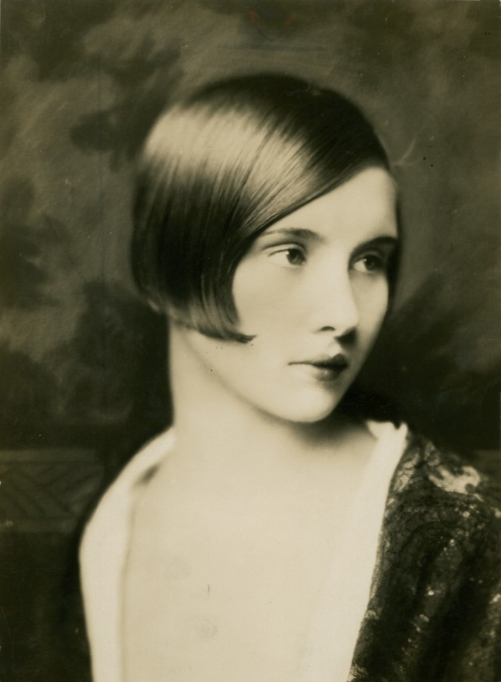 Edythe Baker